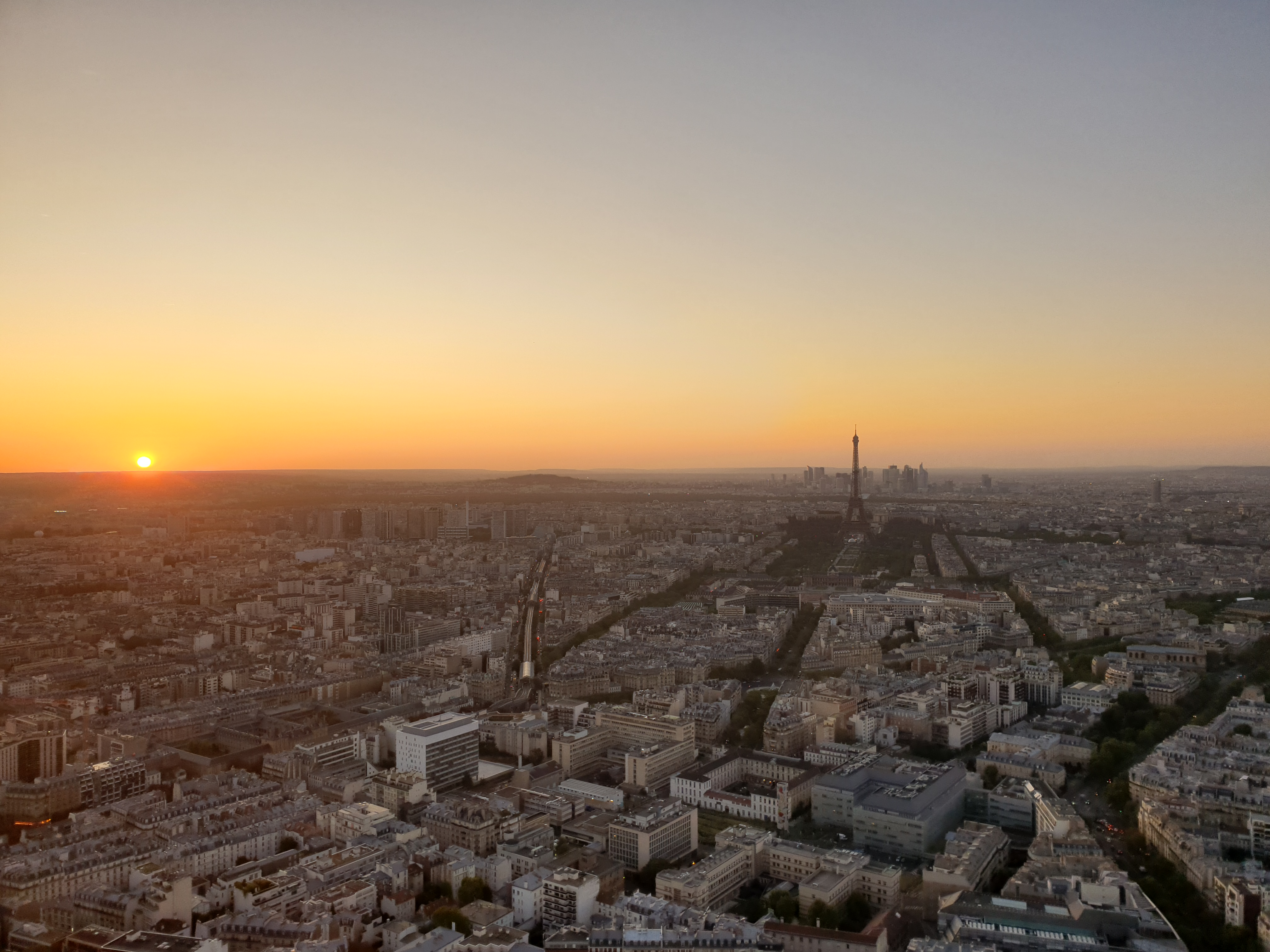 Sunset in Paris from Tour Montparnasse